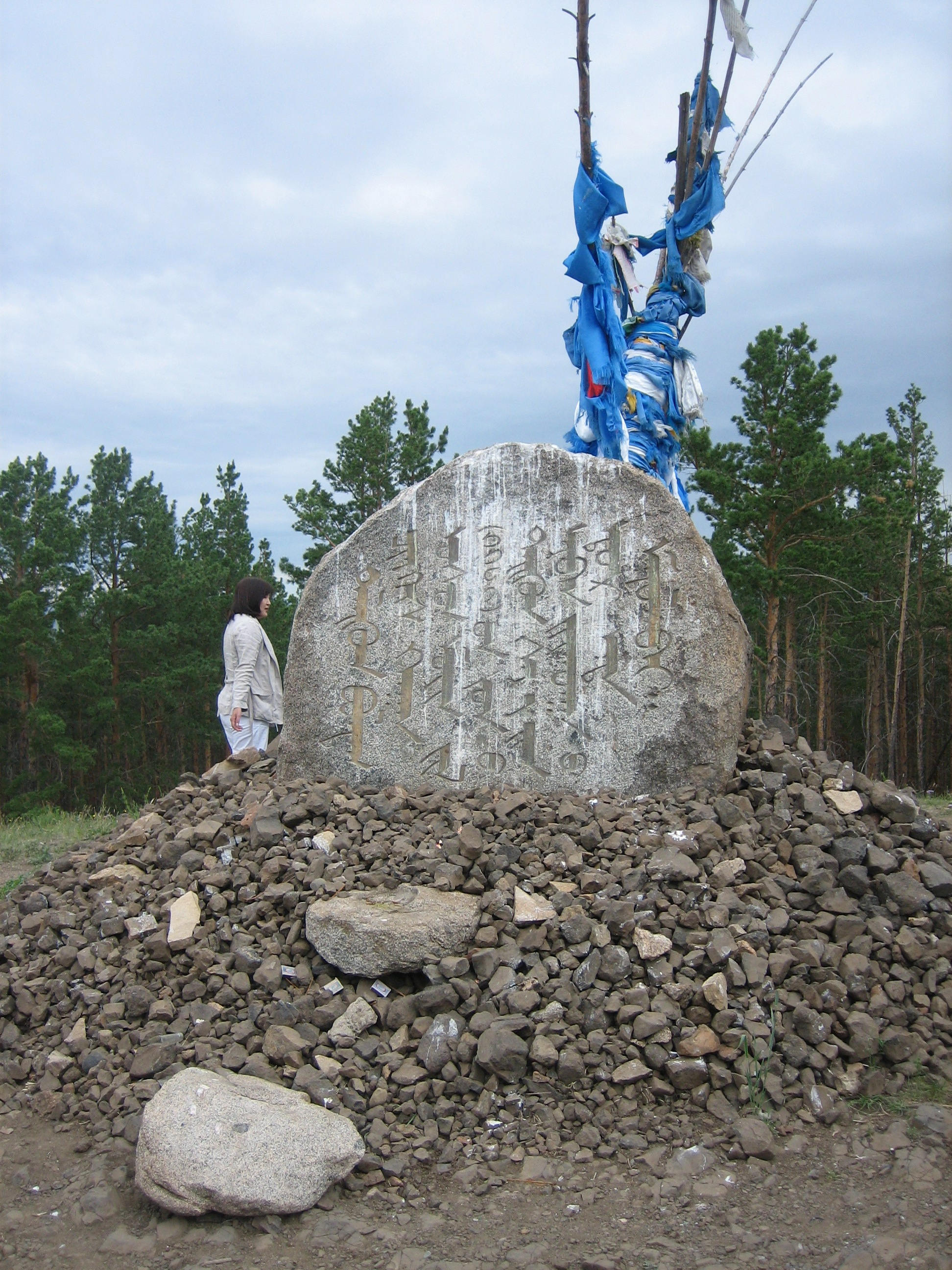 "Delüün Boldog. Genghis Khan was born here in the year of the water horse (1162), first month of summer, day sixteen." Монгол: "Дэлүүн Болдог. Чингис хаан усан морин жил(1162)ийн зуны тэргүүн сарын арван зургааны өдөр энд мэндэлвэй."ᠳᠡᠯᠢᠭᠦᠨ ᠪᠣᠯᠳᠠᠭ ᠴᠢᠩᠭᠢᠰ ᠬᠠᠭᠠᠨ ᠤᠰᠤᠨ ᠮᠣᠷᠢᠨ ᠵᠢᠯ (᠑᠑᠖᠒) ᠦᠨ ᠵᠤᠨ ᠤ ᠲᠡᠷᠢᠭᠦᠨ ᠰᠠᠷ᠎ᠠ ᠶᠢᠨ ᠠᠷᠪᠠᠨ ᠵᠢᠷᠭᠤᠭᠠᠨ ᠤ ᠡᠳᠦᠷ ᠡᠨᠳᠡ ᠮᠡᠨᠳᠦᠯᠡᠪᠡᠢ᠃